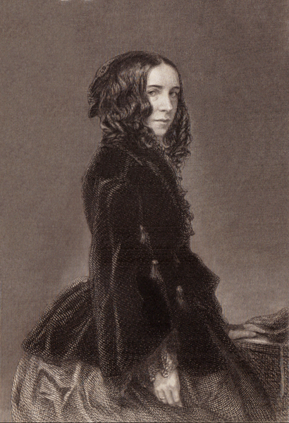 Elizabeth Barrett Browning, Engraving September, 1859, by Macaire Havre, engraving by T. O. Barlow.